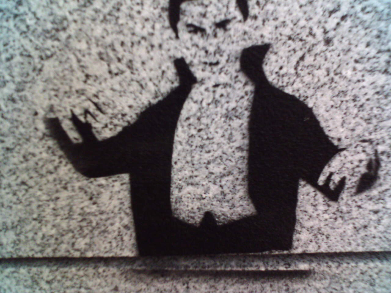 Beschreibung / Description: Pochoir / stencil-art-Graffiti in Linz: Bela Lugosi as Dracula Quelle/Source: picture taken by myself in Linz, 26 september 2005 Lizenz/License: all rights released Actually, I think it might be a stencil of Dracula from the old 1930s films....